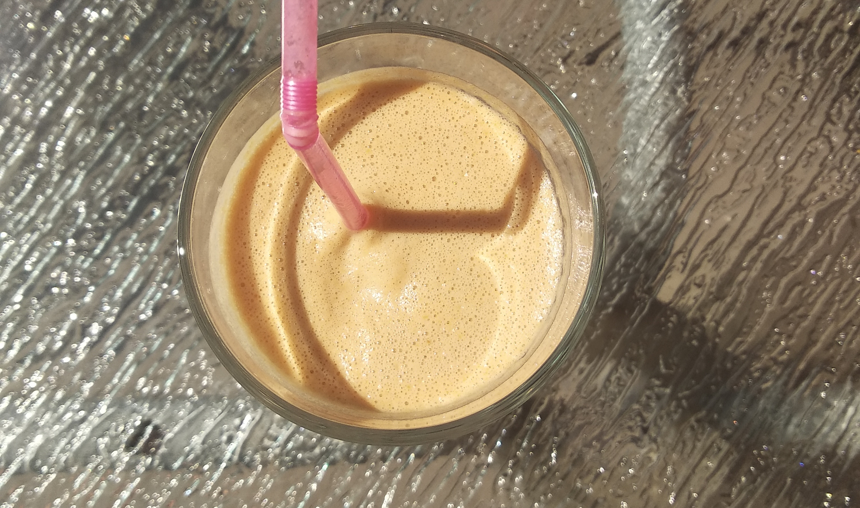 Homemade peanut punch drink